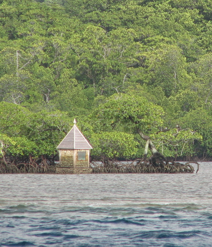 Memorial to French explorer La_Pérouse in Mangadai Bay, Vanikoro Island, Temotu Province, Solomon Islands. Memorial is at 11 39.02 S 166 55.52 E. This is actually on the opposite side of the island to where the wrecks of Lapérouse's ships were located.